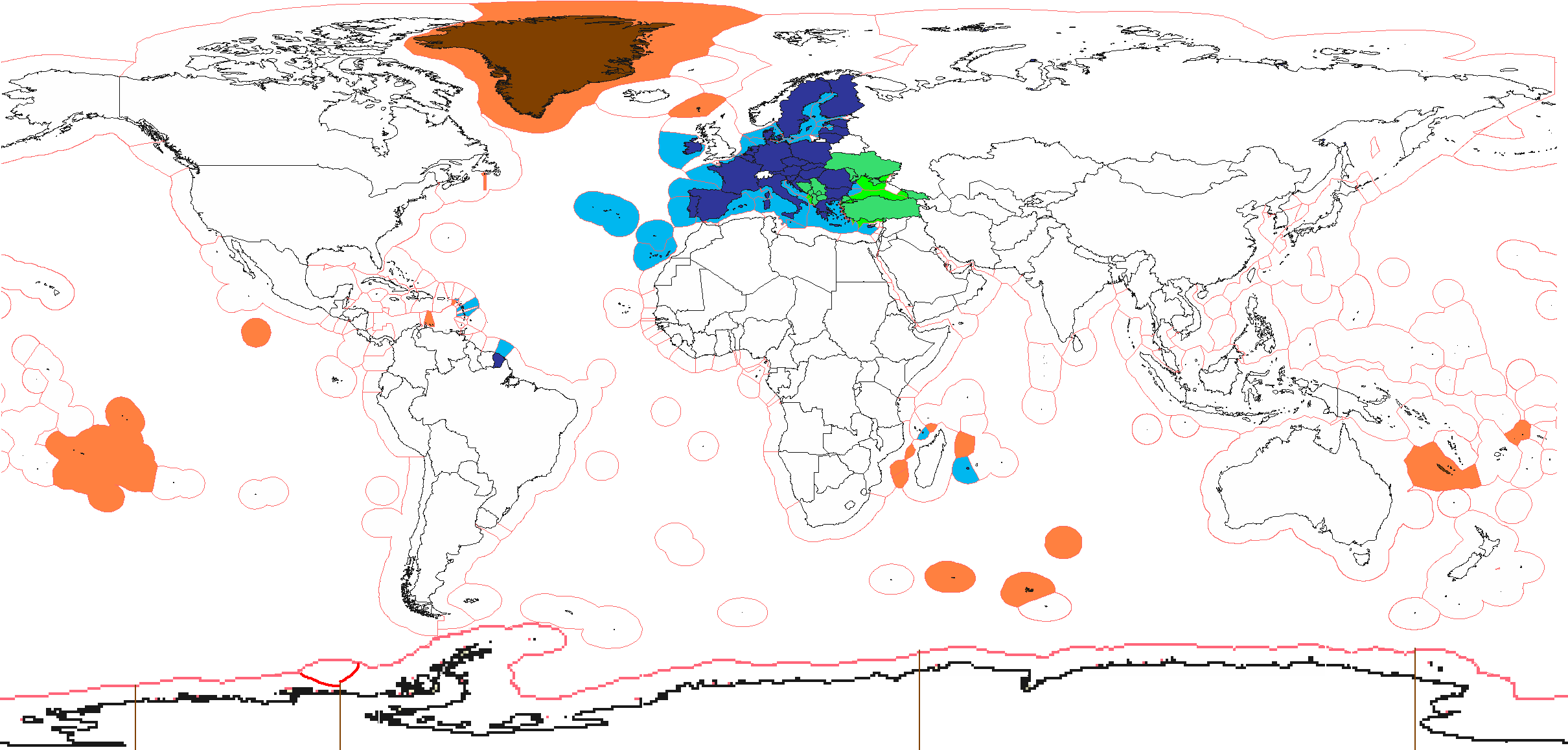 EU enlargement agenda member state special territories outside EU